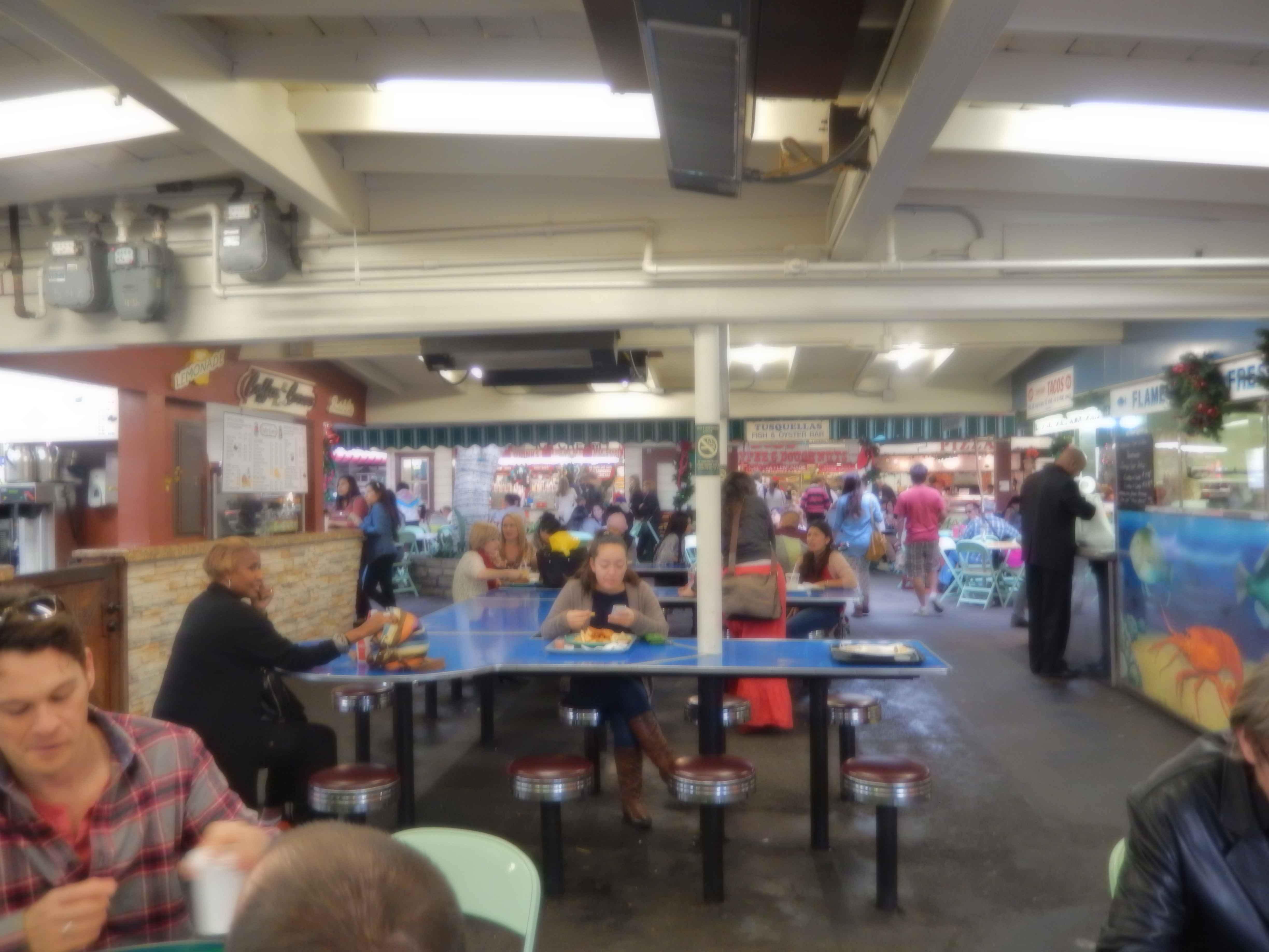 I took photo with Nikon camera of Farmers Market Los Angeles.